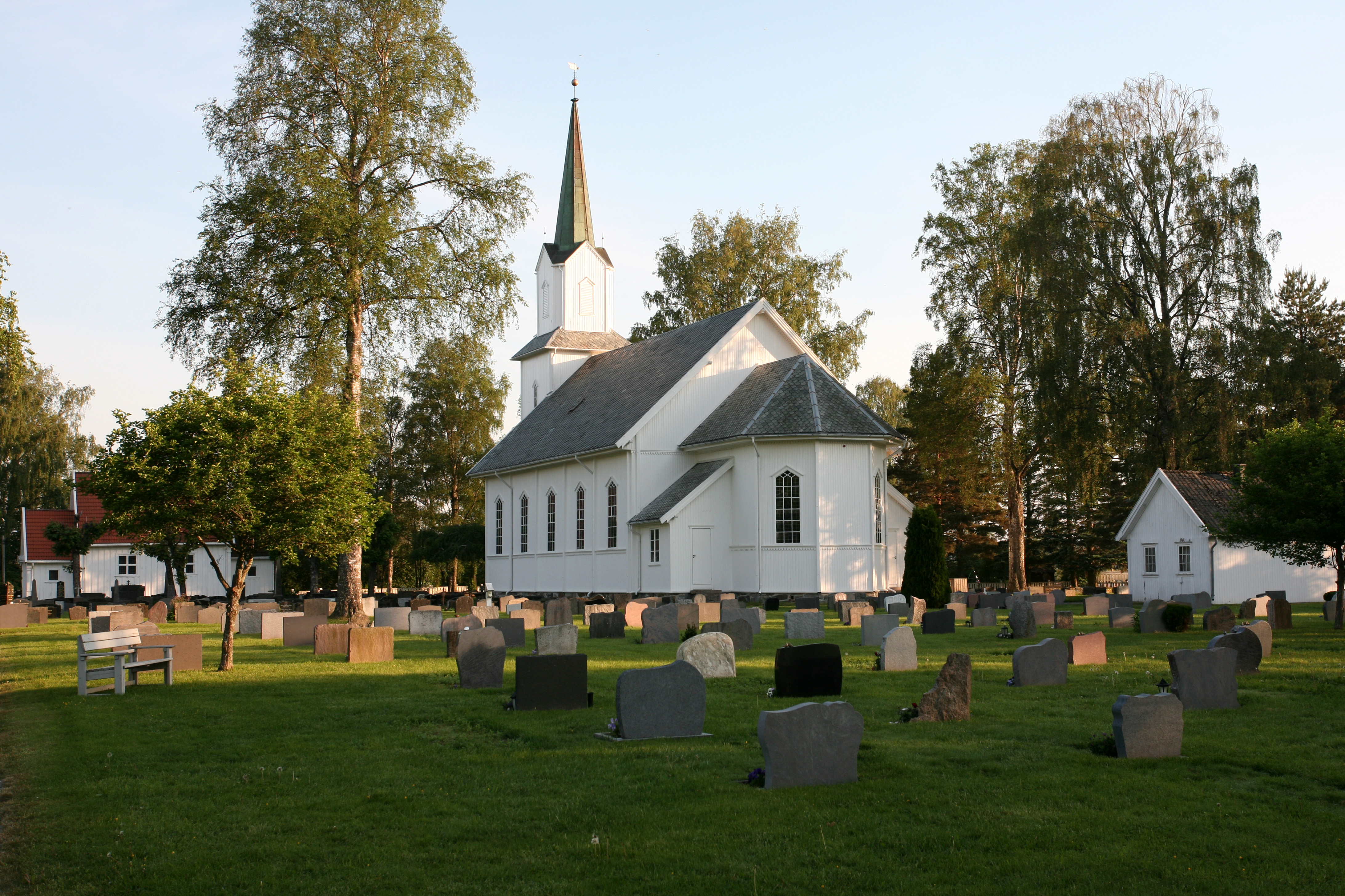 Picture of Blaker kirke (Akershus - Norway)